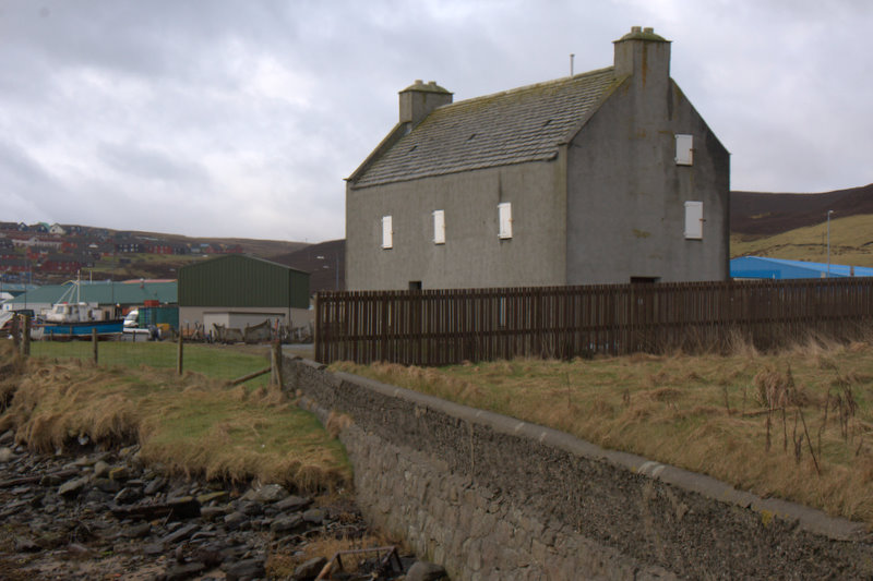 Booth of Gremista, Lerwick The building is a museum, as it was the birthplace of Arthur Anderson (1791-1868), one of the founders of the P&O shipping company. P&O's long association with Shetland ended in 2002 when the contact for the Orkney-Shetland the ferry service was lost to Northlink. Arthur Anderson's association lives in the name of the main high school in Shetland - gifted by Arthur Anderson, the original Anderson Institute opened in 1862, although it is currently known as Anderson High School. The name is often spelt Böd of Gremista, using local Shetland pronunciation.